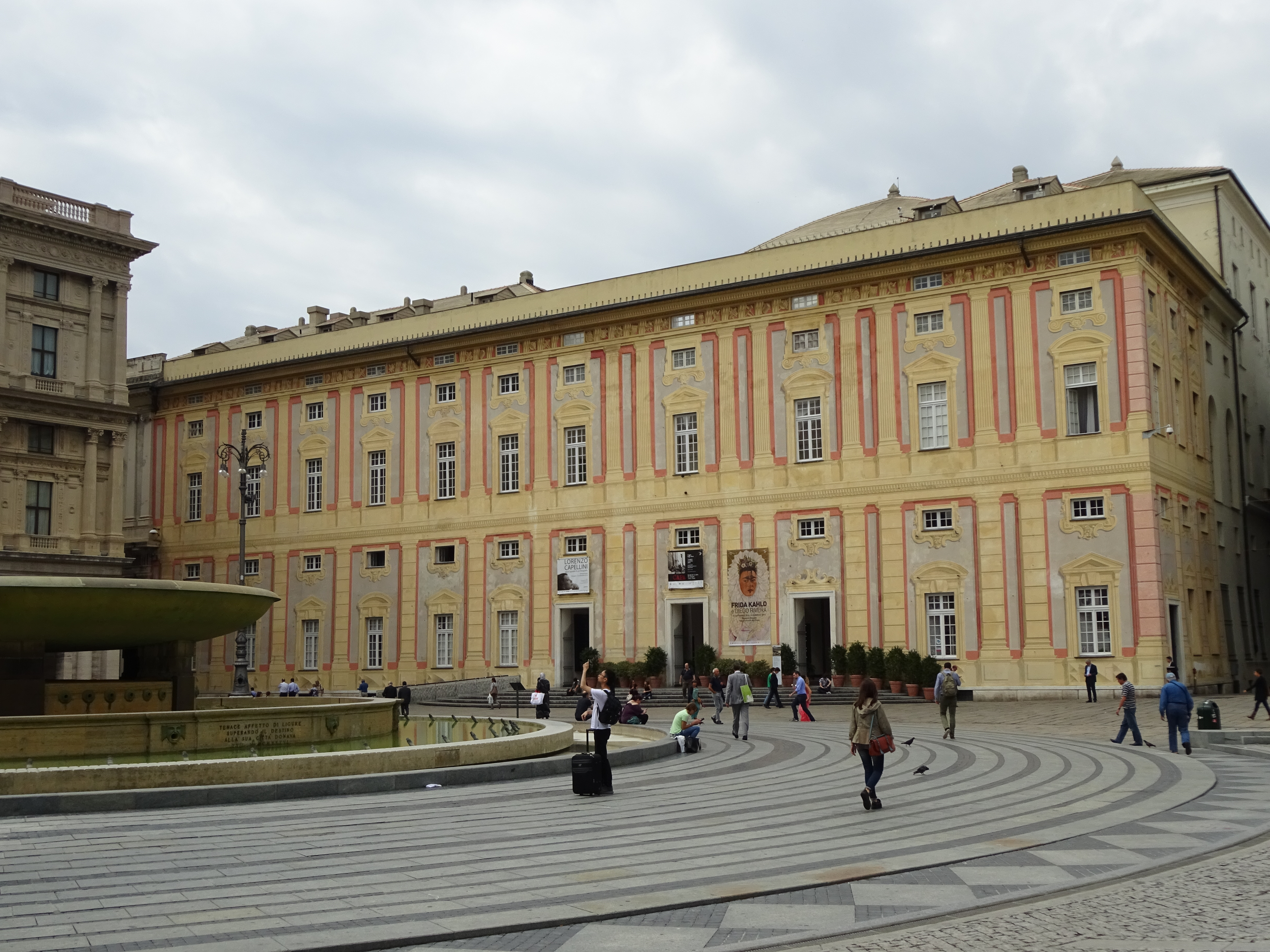 Palace of the Doges in Genoa, facade on De Ferrari Square This is a photo of a monument which is part of cultural heritage of Italy.